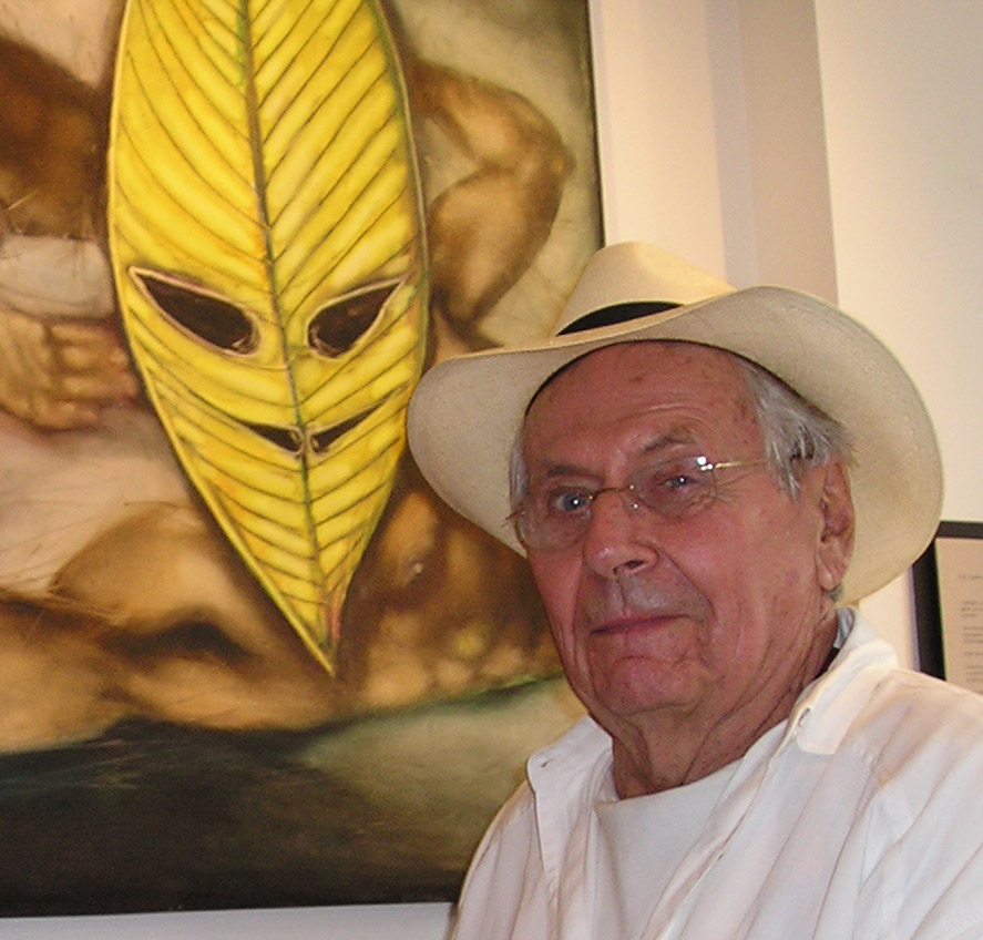 Artist Peter Flinsch at the Galerie Dentaire in Montreal during a one man show in June and July, 2005.